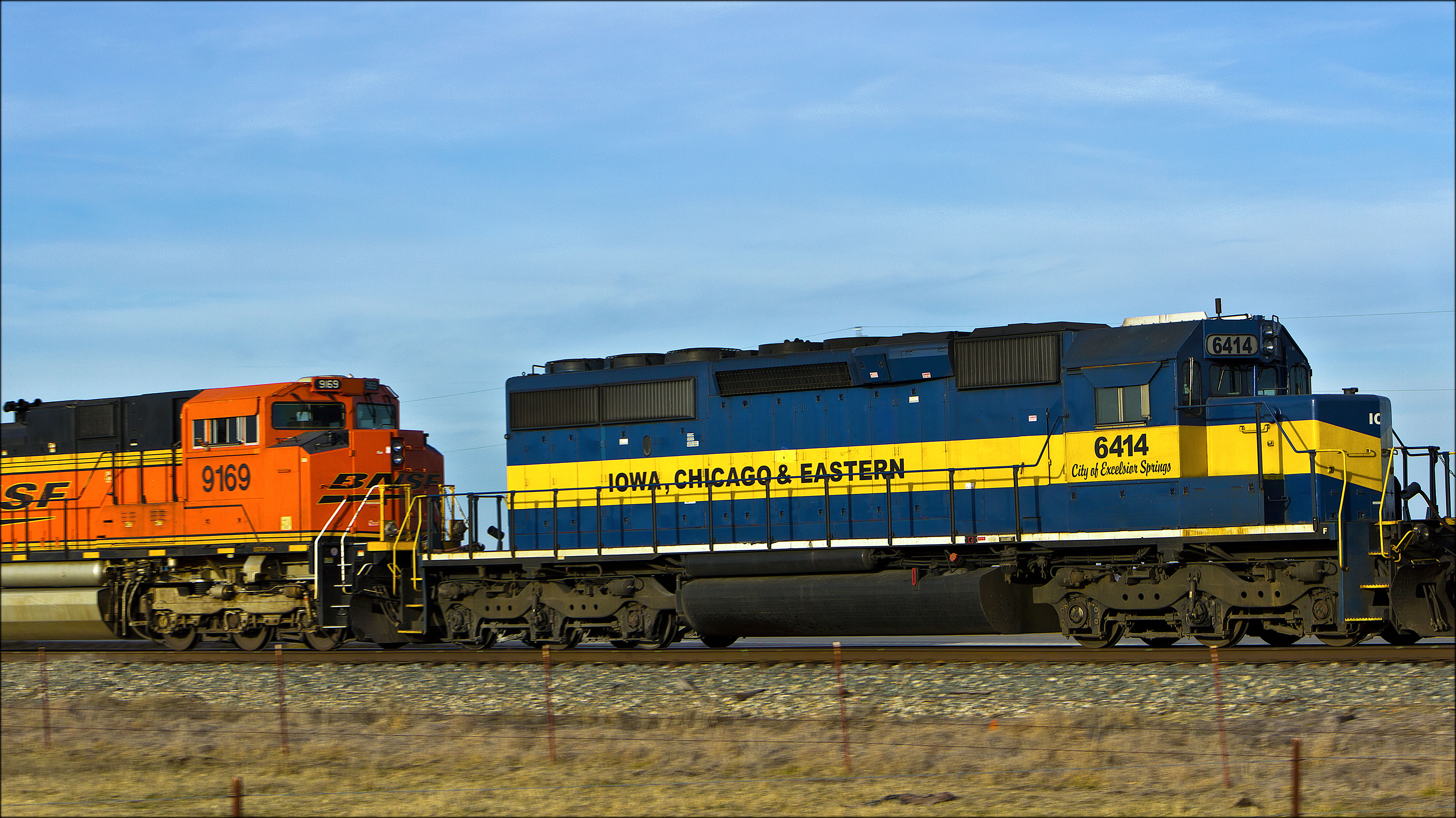 Iowa, Chicago & Eastern - City Of Excelsior Springs. Original description: Iowa, Chicago & Eastern Railroad's locomotive #6414 (City Of Excelsior Springs) makes an appearance on the KCS Mainline north of Joplin, MO.